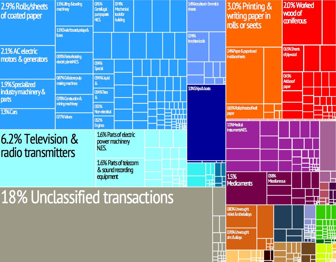 Export Trading Treemap. From MIT/Harvard Atlas of Economic Complexity